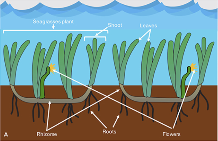 Labelled drawing of seagrass plants